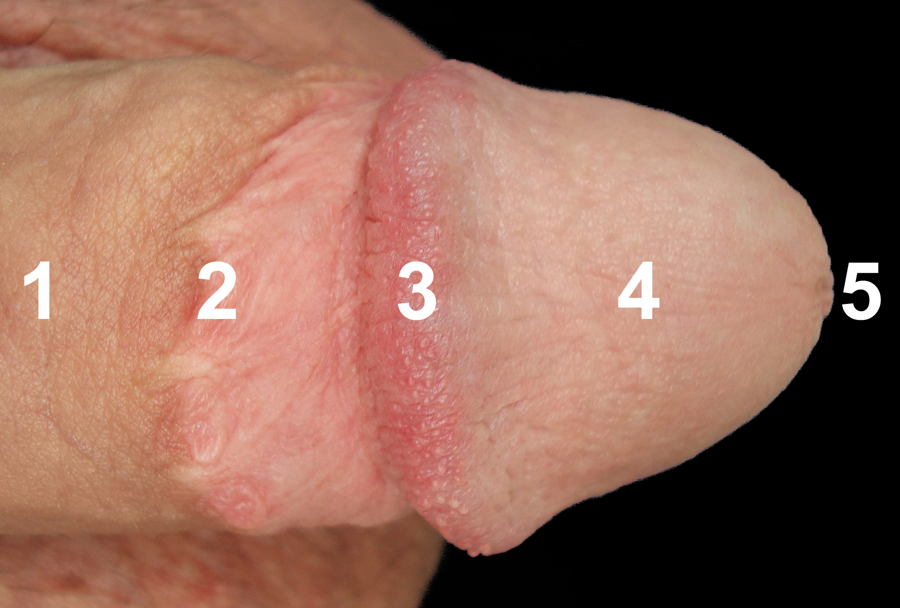 Adult circumcision scar, stitch scar visible